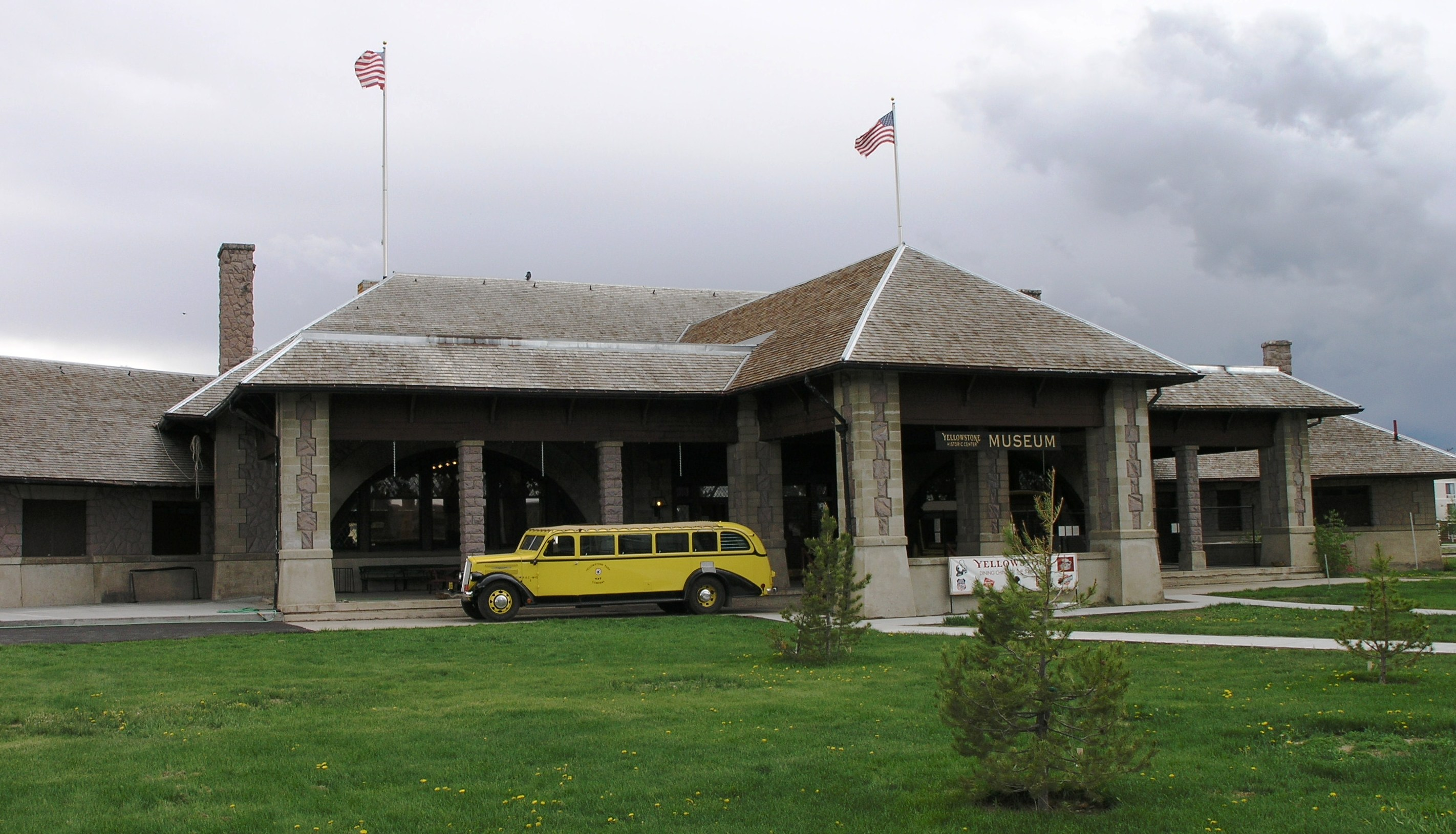 Museum, Yellowstone Park